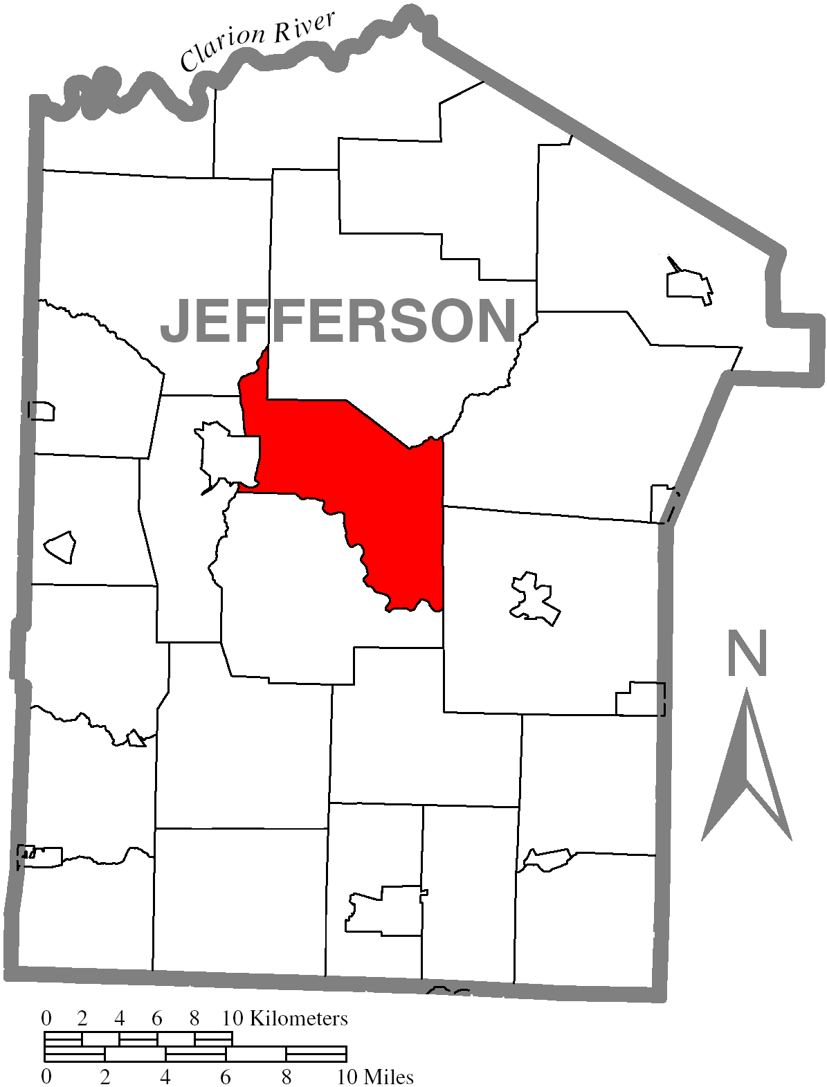 A map of Jefferson County showing Pine Creek Township, Pennsylvania (alternate) highlighted on the map.